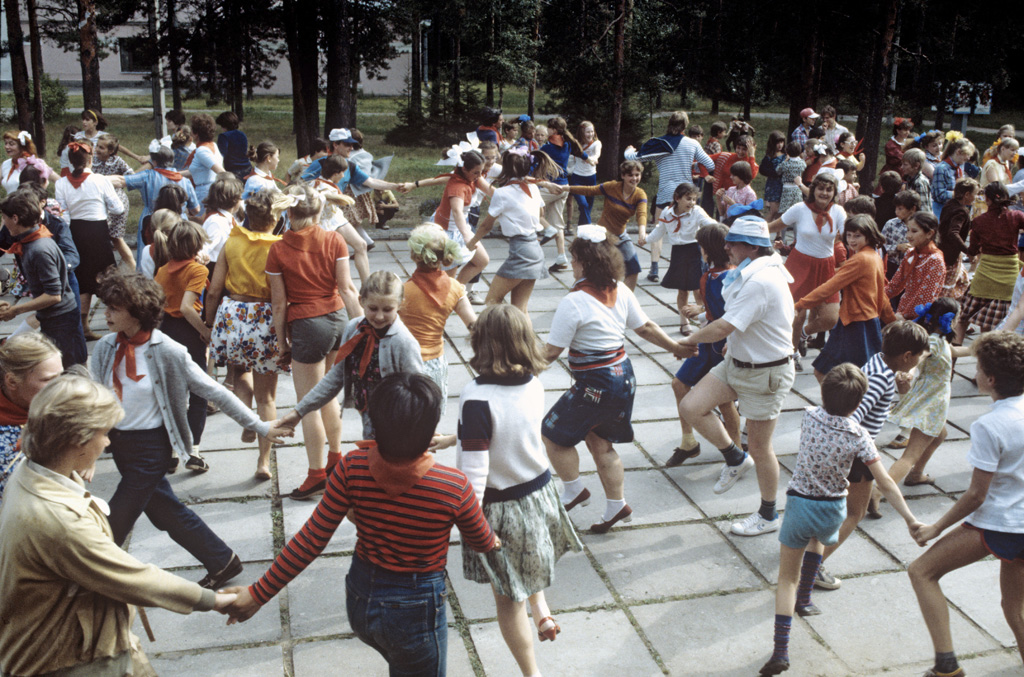 “Children at Mayak Young Pioneer camp”. Soviet and Polish children at Mayak [Beacon] Young Pioneer camp.